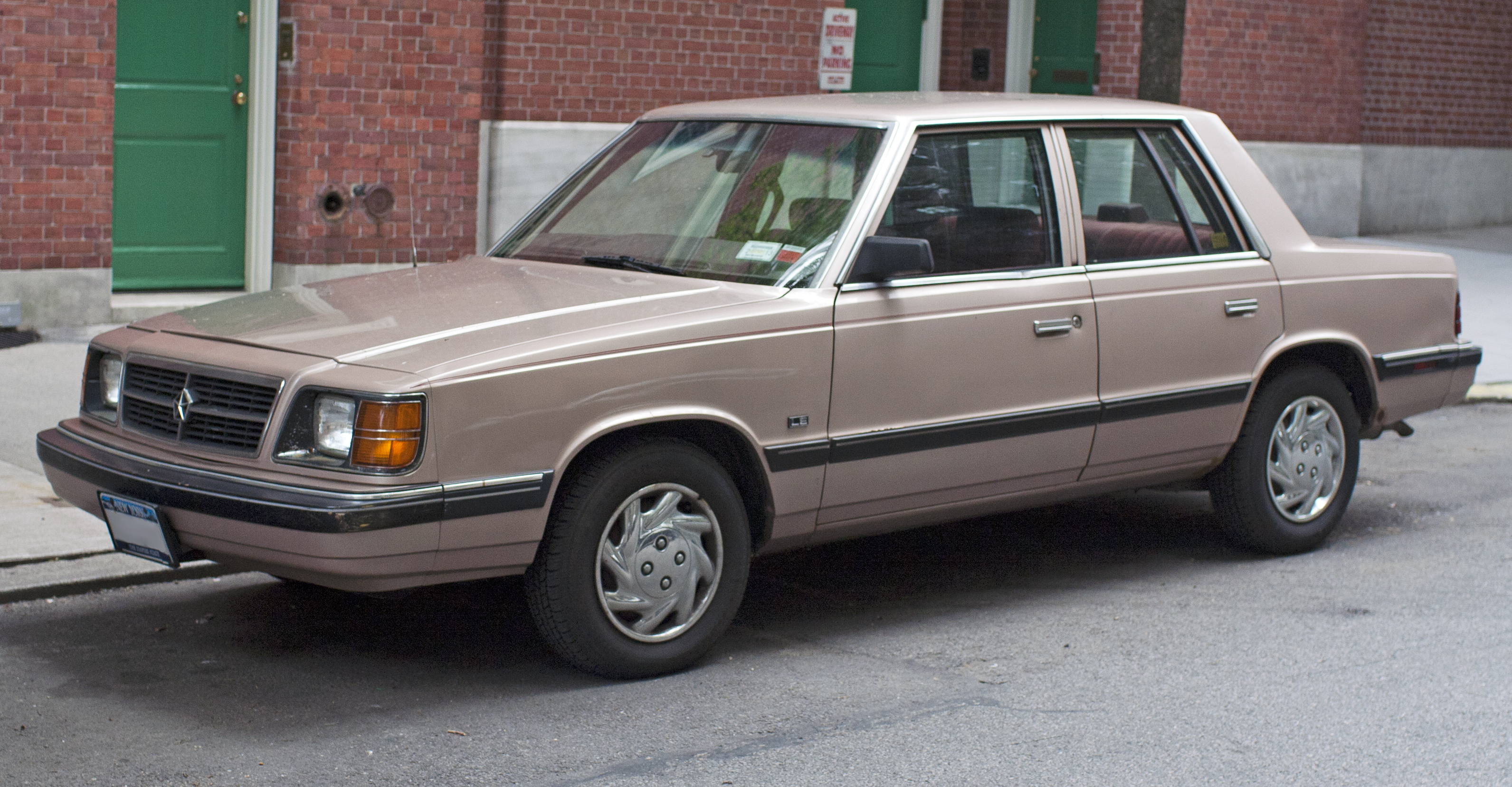 1988 Dodge Aries four-door